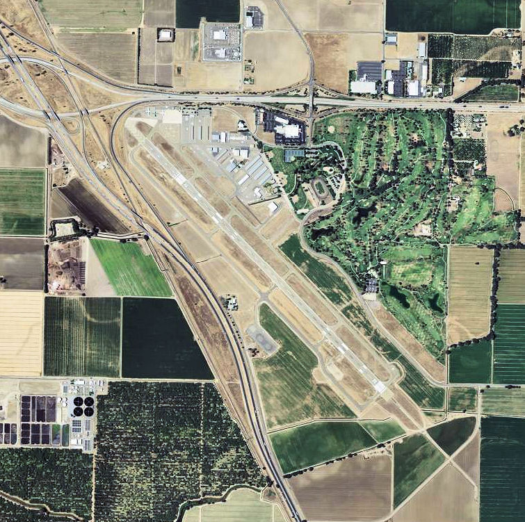 USGS digital orthophoto of Visalia Municipal Airport in California